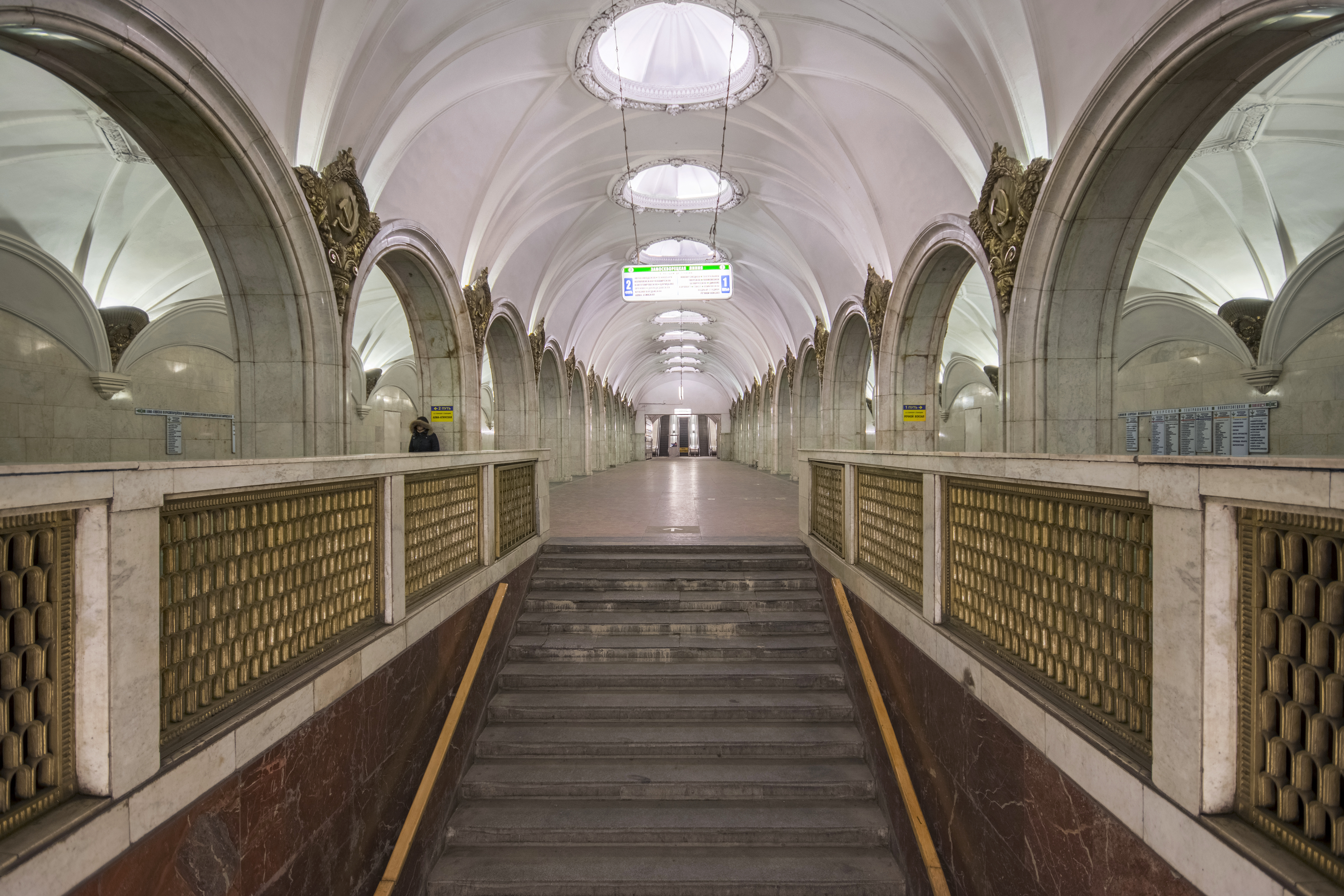 Paveletskaya Station of Moscow Subway